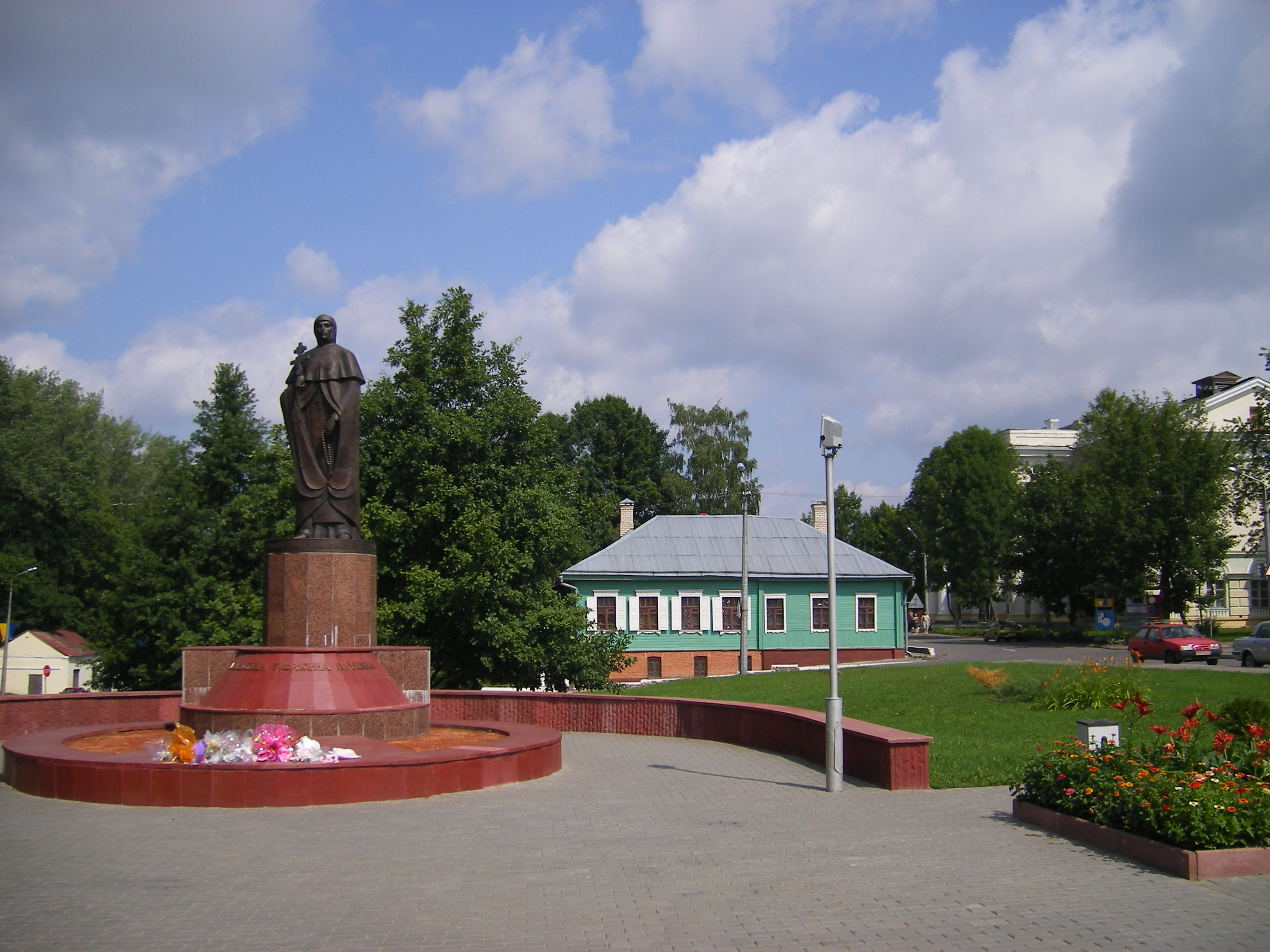 Statue of St. Euphrosine in Pl. Svobody